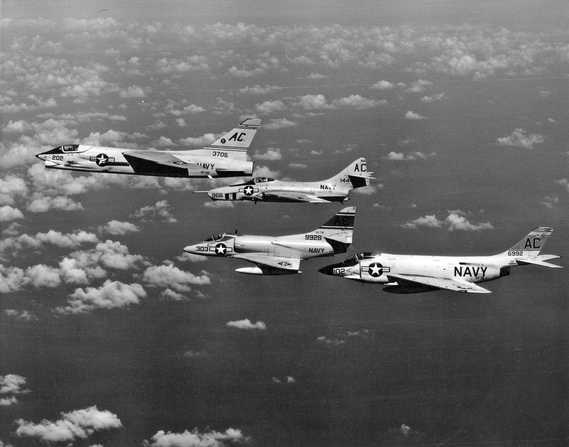 Four planes of U.S. Navy Carrier Air Group Three (CVG-3) in 1958: A Vought F8U-1 Crusader of fighter squadron VF-32 Swordsmen (left); a Grumman F9F-8P Cougar of reconnaissance squadron VFP-62 Det.43 Fighting Photos (above); a Douglas A4D-1 Skyhawk of attack squadron VA-34 Blue Blasters (below); and a McDonnell F3H-2N Demon of VF-31 Tomcatters (right). CVG-3 was deployed aboard the aircraft carrier USS Saratoga (CVA-60) to the Mediterranean Sea from 1 February to 1 October 1958. CVG-3 (after 1963 CVW-3) was stationed aboard the Saratoga from 1958 to 1980.